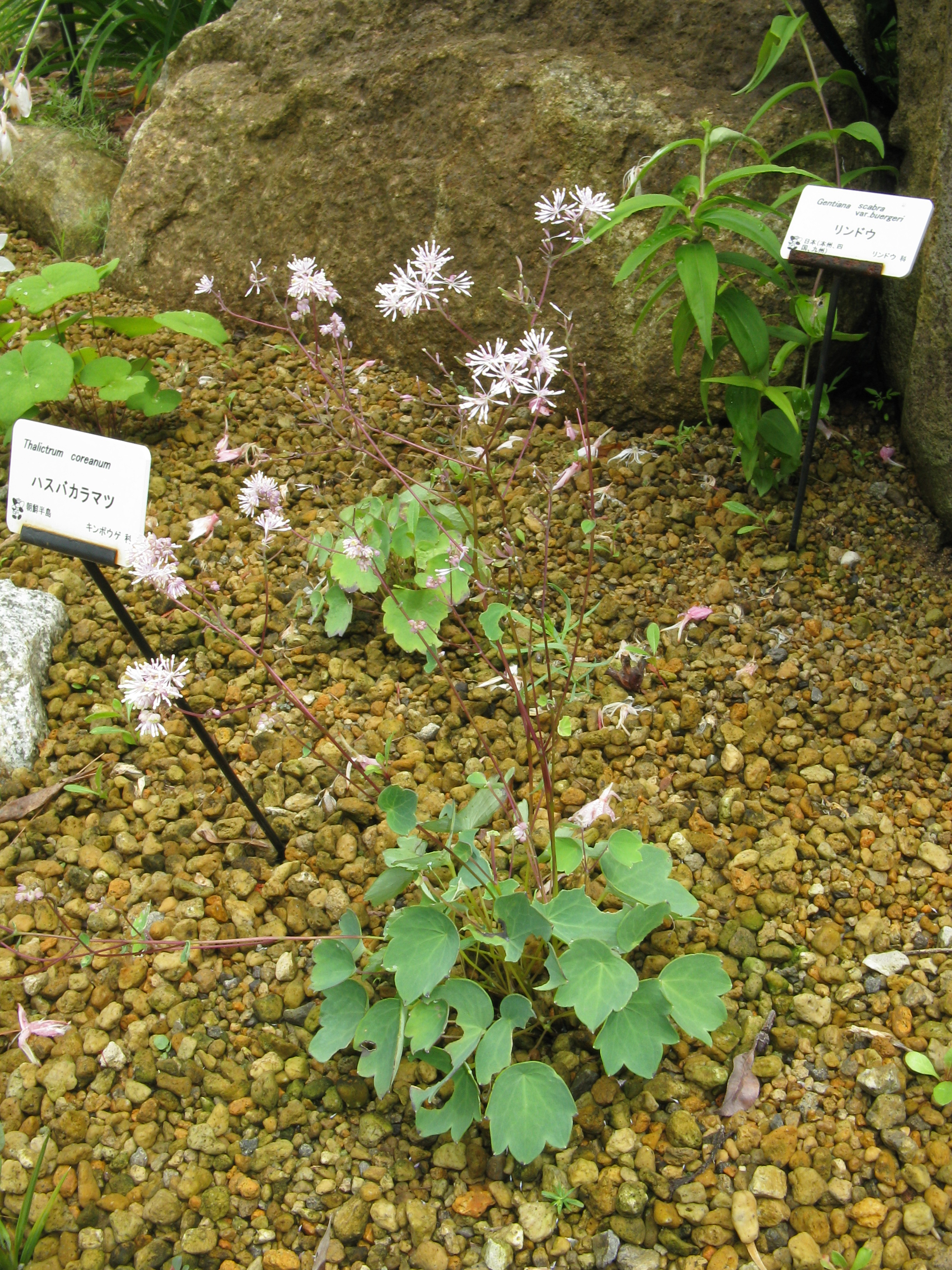 Thalictrum coreanum Place:Osaka Prefectural Flower Garden,Osaka,Japan